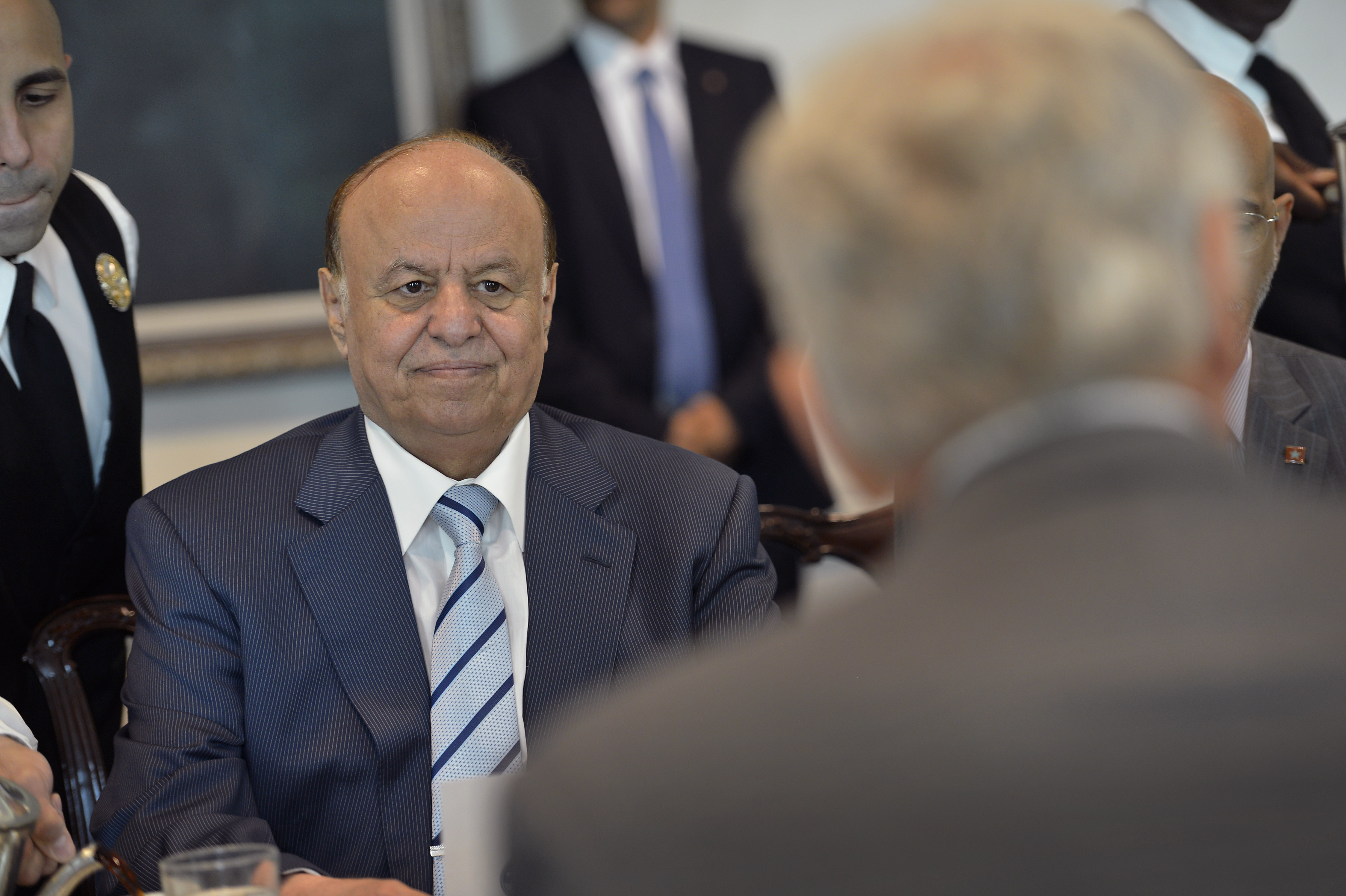 Sitting down for a meeting, Yemen President Abd Rabuh Mansur Hadi listens as Secretary of Defense Chuck Hagel welcomes him to the Pentagon July 30, 2013